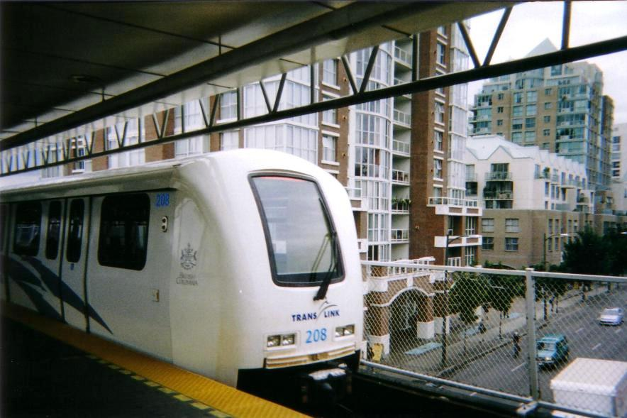 Mark II SkyTrain ready to leave Main Street-Science World Station.